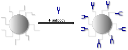 For location specific delivery of the FePt nanoparticles, antibodies or other peptides are conjugated to the surface of FePt nanoparticles.